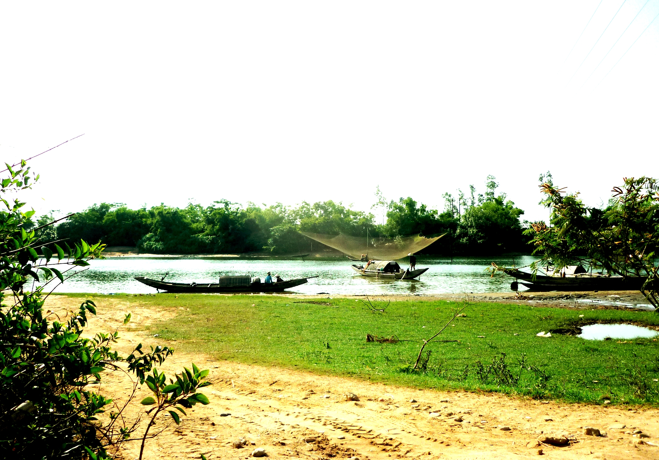 Fishing on Hieu River